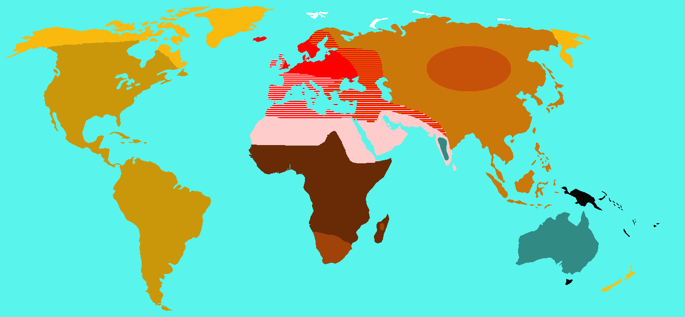 map of the distribution of human races by Thomas Huxley, roughly drawn by me from On the Geographical Distribution of the Chief Modifications of Mankind, Journal of the Ethnological Society of London (1870) [1] 1: Bushmen 2: Negroes 3: Negritoes 4: Melanochroi (including Hamites and Moors) 5: Australoids 6: Xanthochroi 7: Polynesians 8: Mongoloids A 8: Mongoloids B 8: Mongoloids C 9: Esquimaux Huxley states: 'It is to the Xanthochroi and Melanochroi, taken together, that the absurd denomination of "Caucasian" is usually applied'.[1] He also indicates that he has omitted certain areas with complex ethnic compositions that do not fit into his racial paradigm, including much of the Indian subcontinent and Horn of Africa.[2] Huxley's Melanochroi eventually comprised various other dark Caucasoid populations, such as the Hamites and Moors.[3]